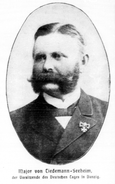 Portrait of Heinrich von Tiedemann-Seeheim